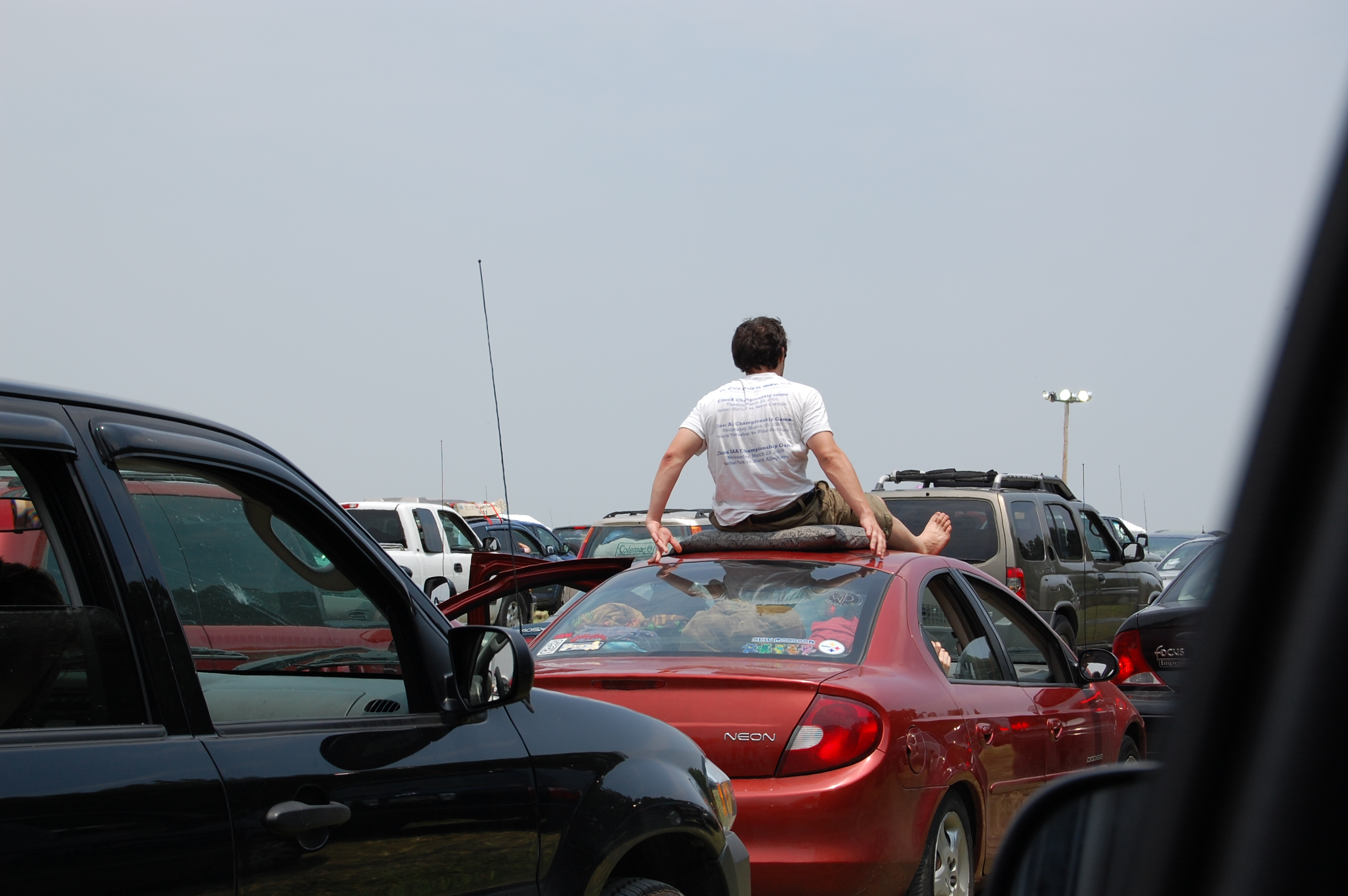 This guy rode the top of the car into the Bonnaroo security lines.